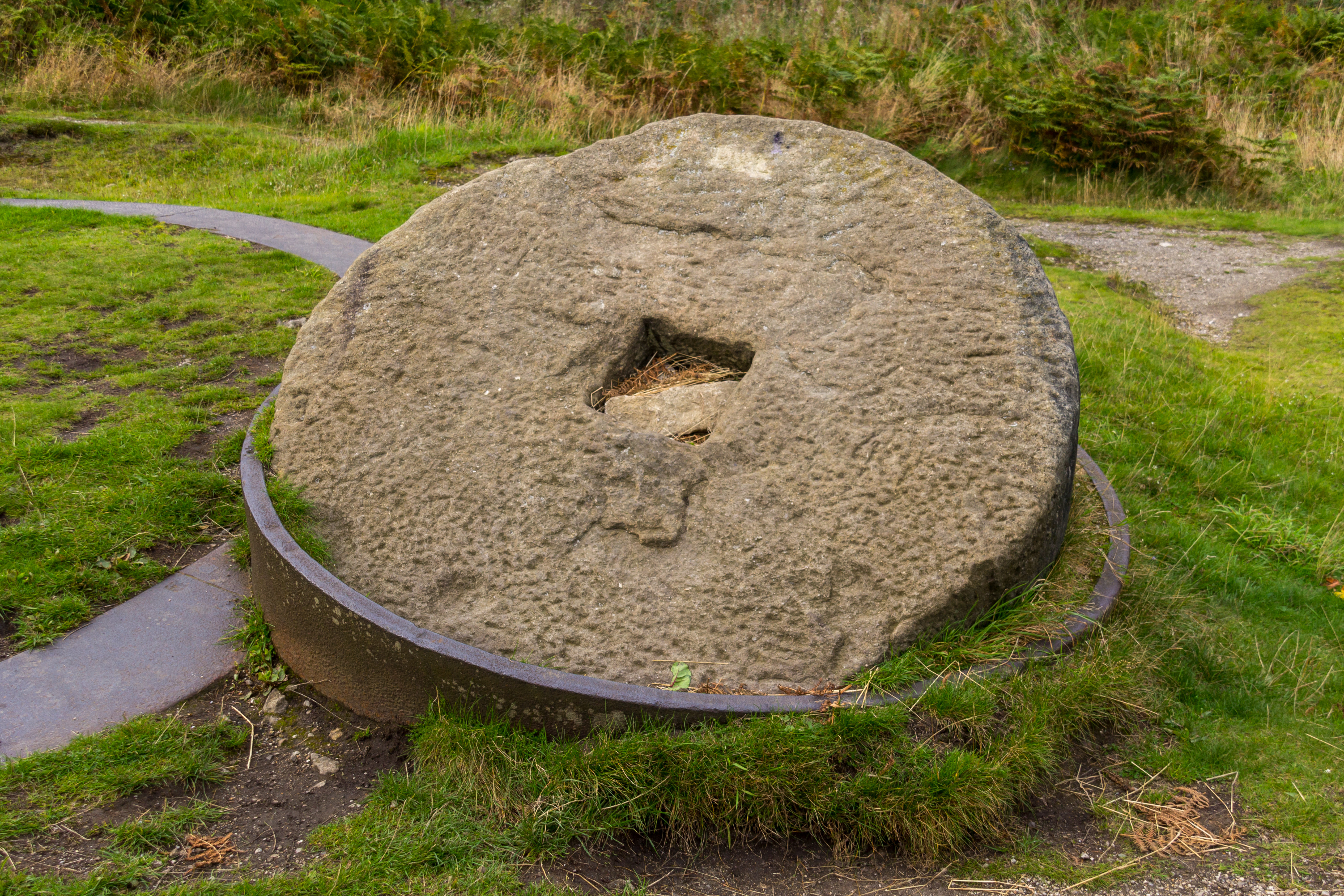 Crushing circle, Odin Mine, near Castleton, Derbyshire.